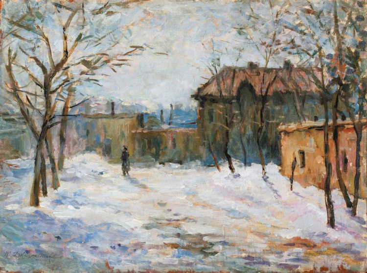 «Winter day», late 19thC cardboard, oil; 40х53; lower left corner «Т. Дворниковъ»